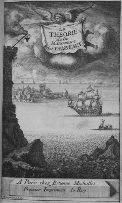 Frontispiece of "De la Théorie de la manœuvre des vaisseaux" (1689) by French naval engineer Bernard Renau d'Eliçagaray (1652-1719). Later published in London as "Theory of the handling or working of ships at sea" in 1705.